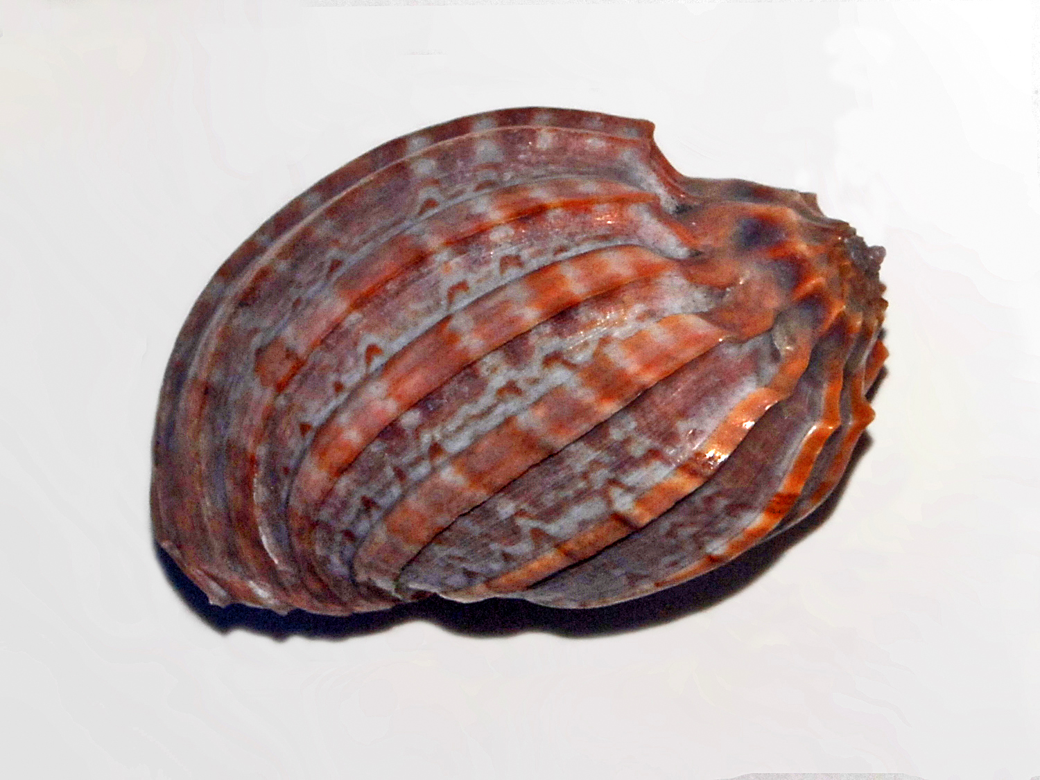 A shell of Harpa davidison display at the Museo Civico di Storia Naturale di Milano